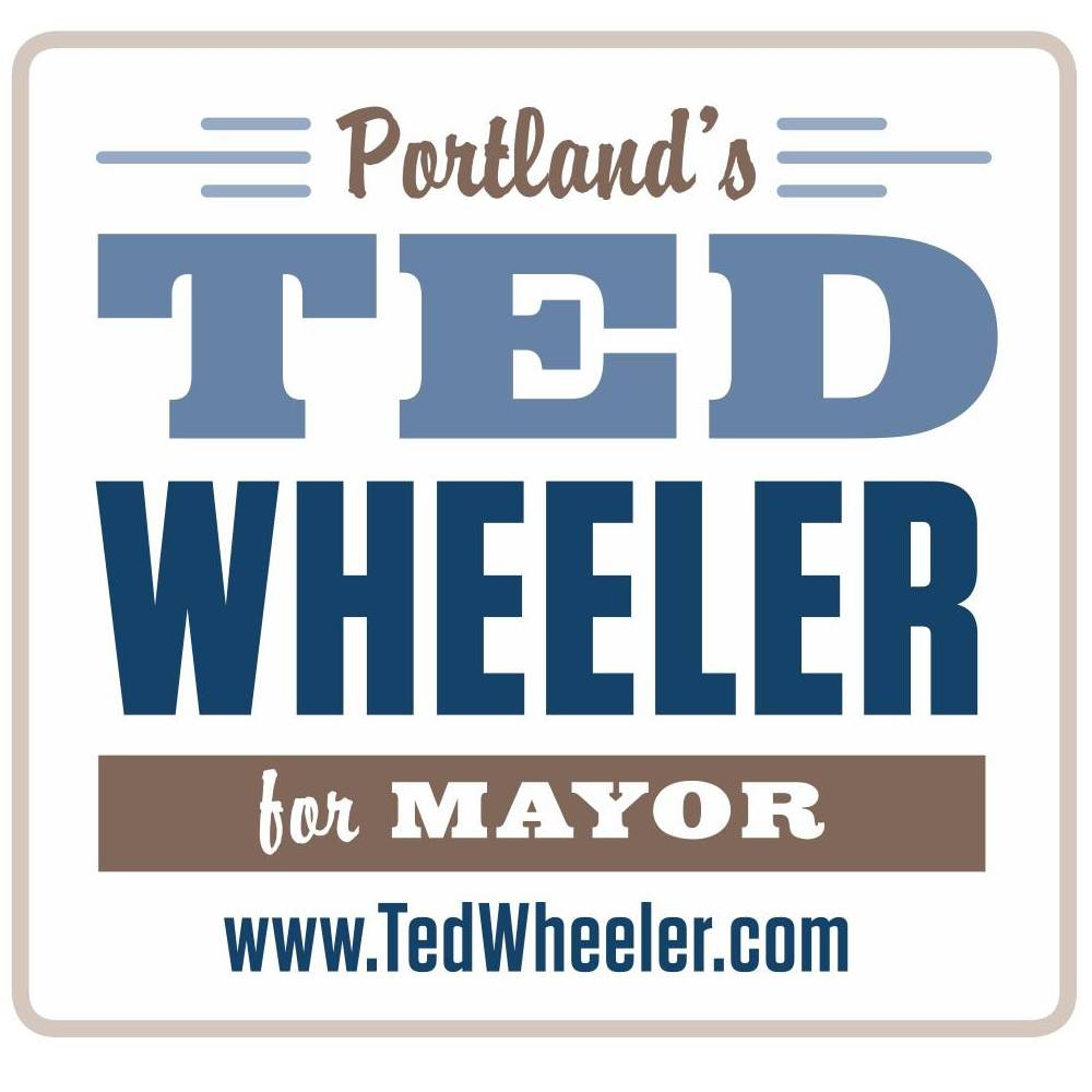 Logo of Ted Wheeler's 2016 Portland, Oregon mayoral campaign.